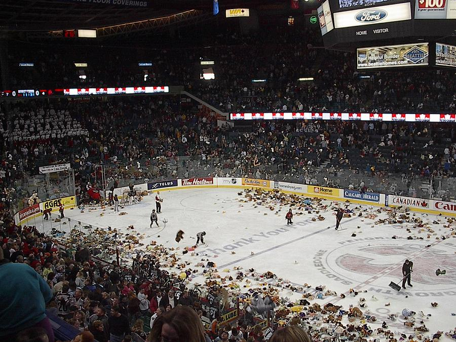 Photo I took of the Calgary Hitmen's annual teddy bear toss game for use on the article about the teddy bear toss tradition. Resolute 04:18, 26 February 2006 (UTC)